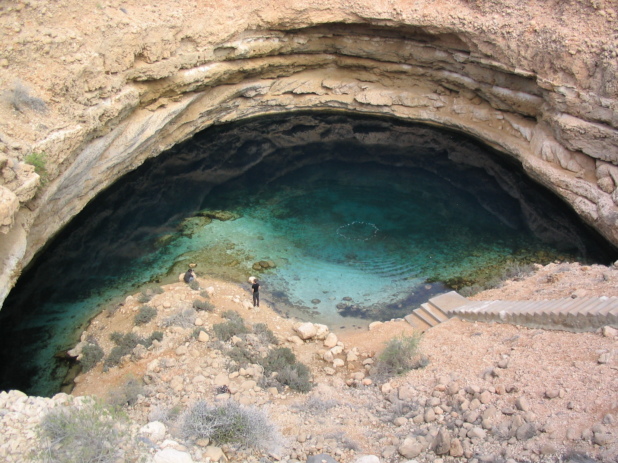 A sinkhole in Oman